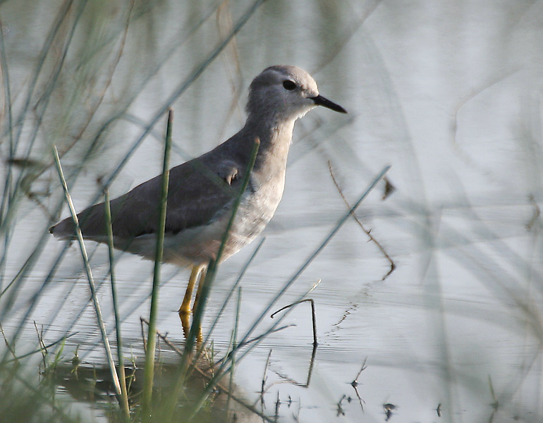 White-tailed Lapwing Vanellus leucurus at Hodal in Faridabad District of Haryana, India.